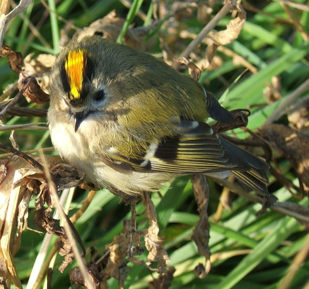 Goldcrest Regulus regulus, exhausted, freshly arrived on autumn migration from Scandinavia, St Mary's Island, Northumberland, England